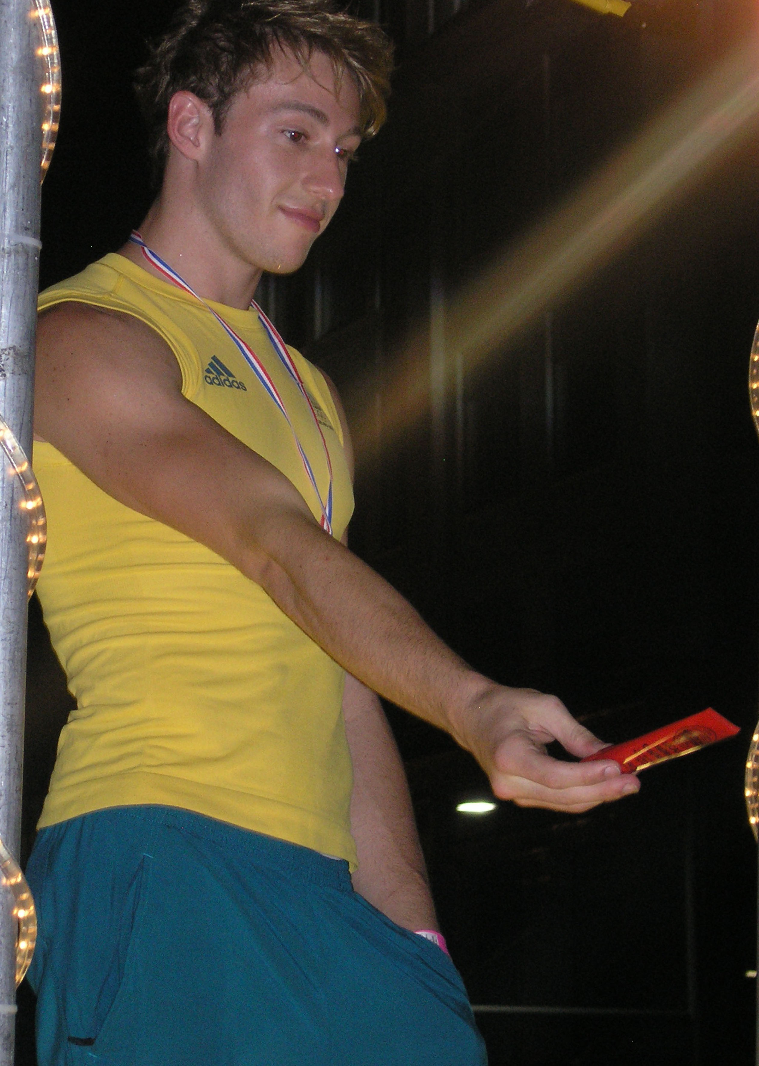 Diver Matthew Mitcham led the 2009 Sydney Gay and Lesbian Mardi Gras Parade of about 9000 marchers, watched by an estimated 400,000 spectators.